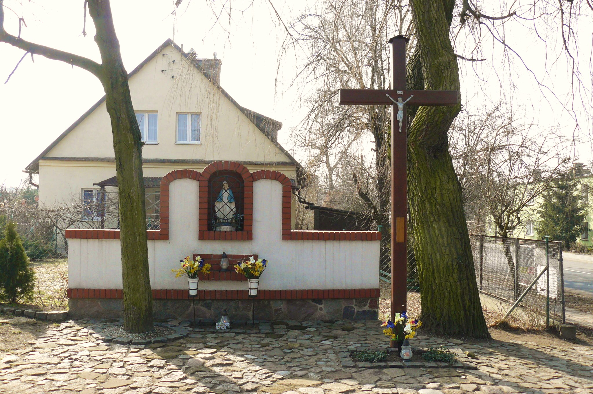 Strzeszyn District - Poznan.